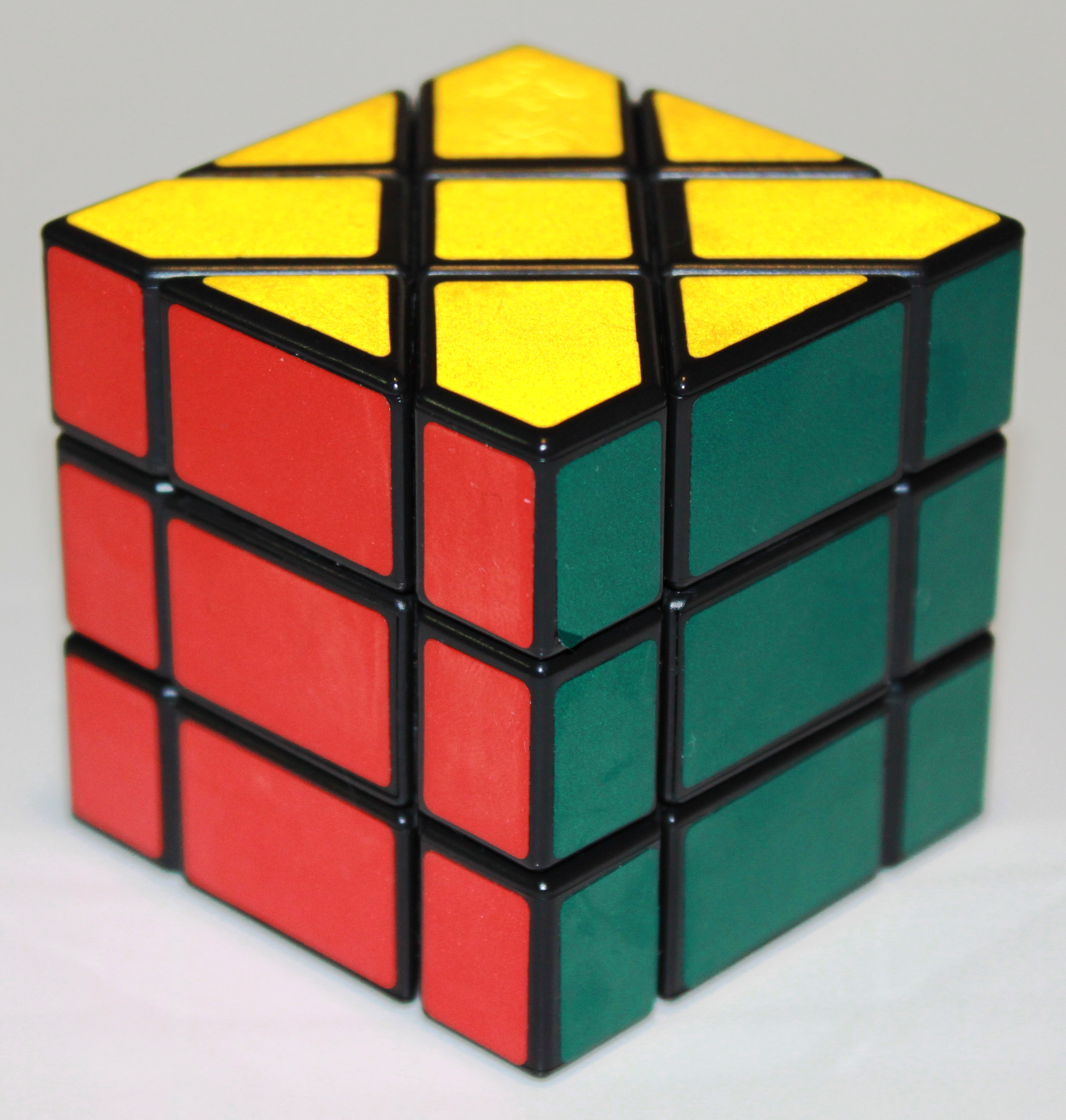 This is a photo of a "Rubiks cube"-like sequential move puzzle.